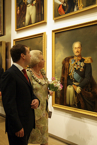 AMSTERDAM. With Queen Beatrix of the Netherlands while touring the exhibition of the State Hermitage branch in the Netherlands, Hermitage Amsterdam.